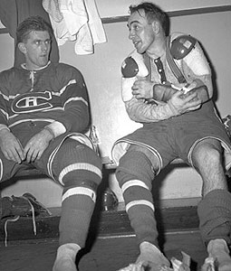 Toe Blake and Maurice Richard